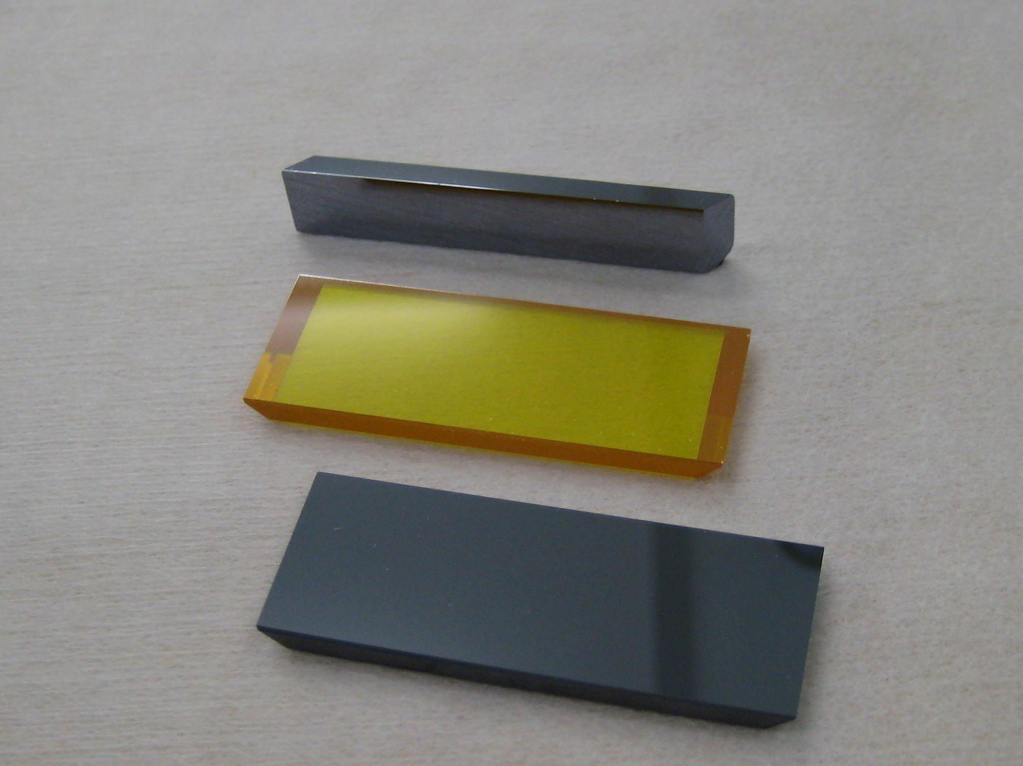 Multireflection elements (MRE) for ATR infrared spectroscopy; Silicon crystal with parallogramic base (top), beneath crystals with parallogramic base made of zinc selenide (mid) and silicon (bottom).